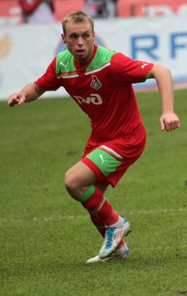 Denis Glushakov with FC Lokomotiv Moscow.